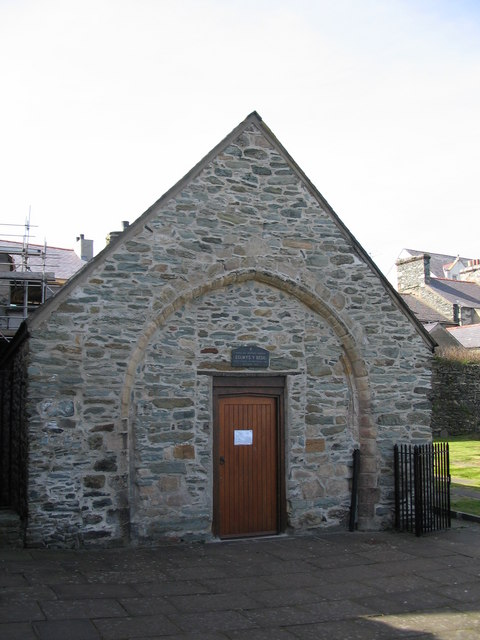 Eglwys y Bedd, Holyhead A view looking west towards Eglwys y Bedd, the Church of the Grave. Originally built in the fourteenth century, it fell into a ruinous state. The nave was restored in 1748, and later became the first school in Holyhead. Further information can be found at .